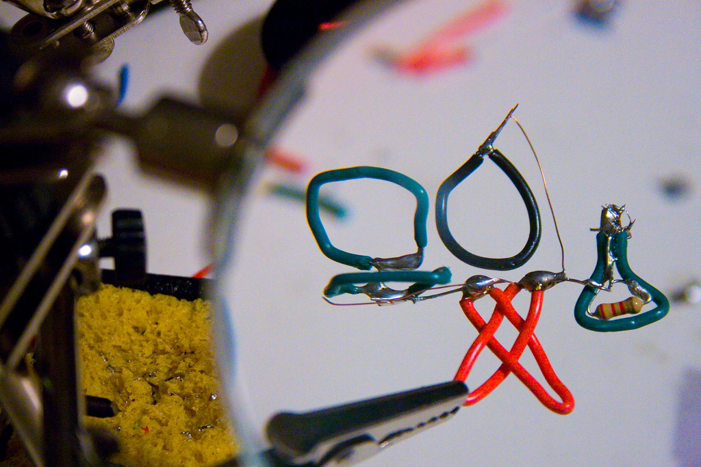 Kind of like weighlifting... WITH YOUR BRAIN Day 3 of soldering... still no functioning electronics.